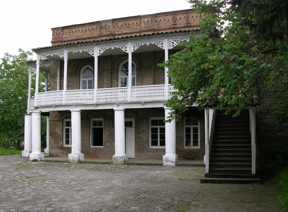 Nato Vachnadze Museum, Gurjaani